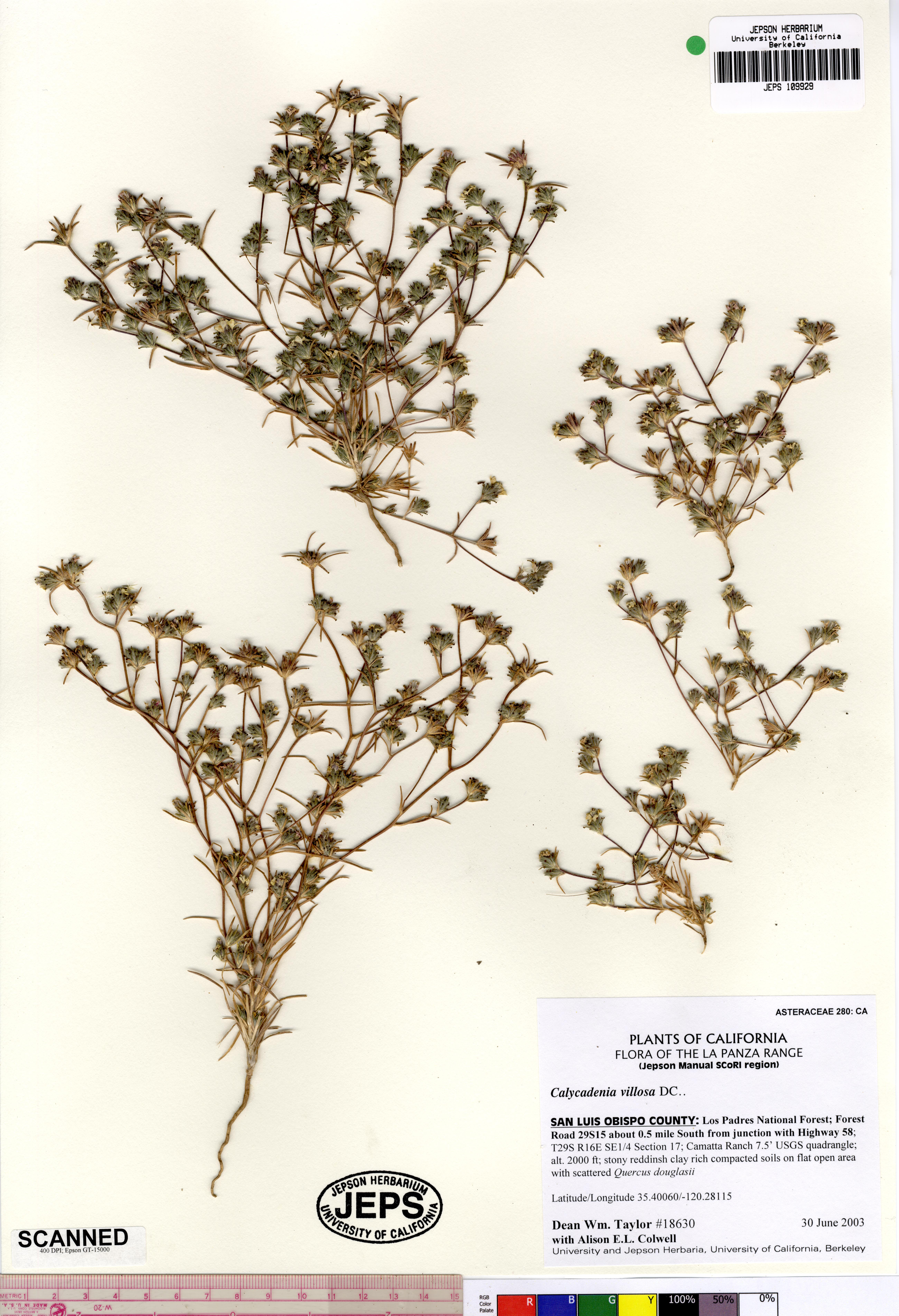 Calycadenia villosa Jepson Herbarium specimen